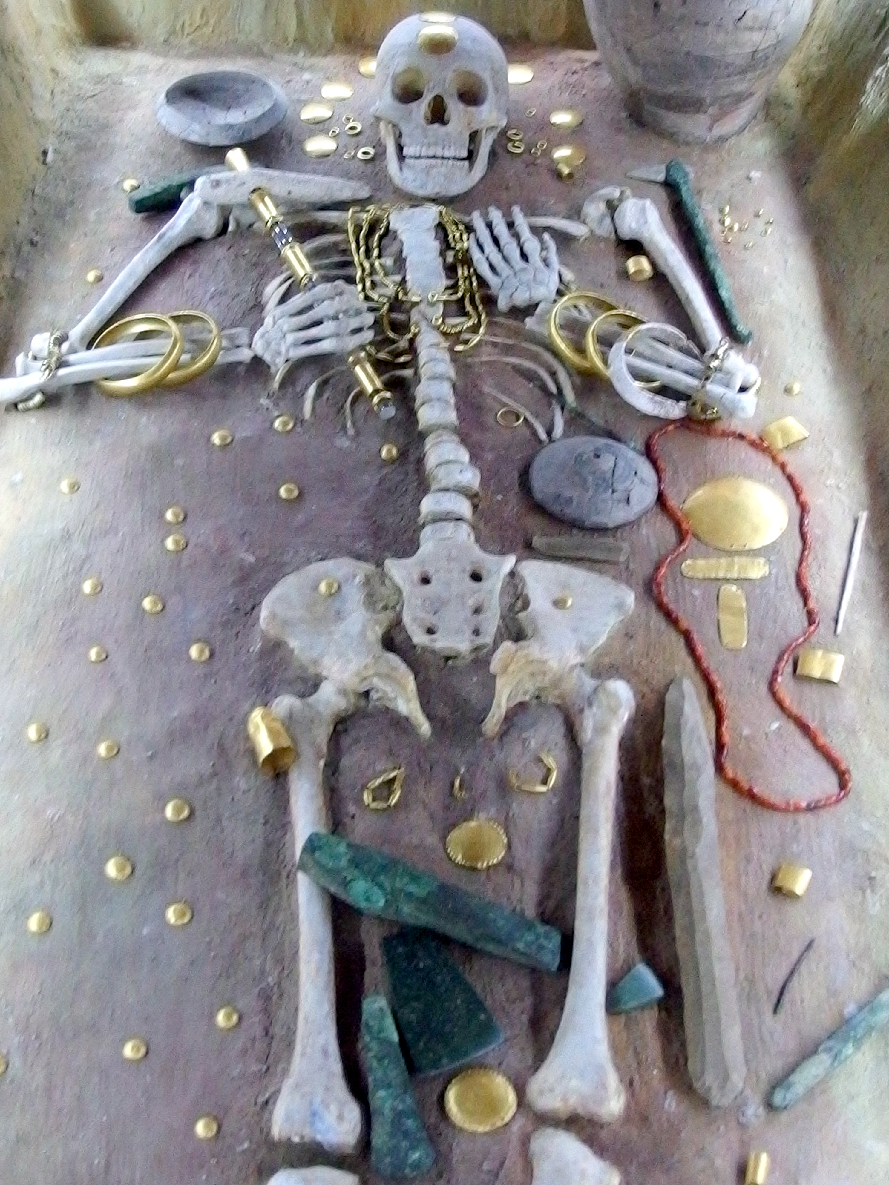 2014-06-11 in Varna.